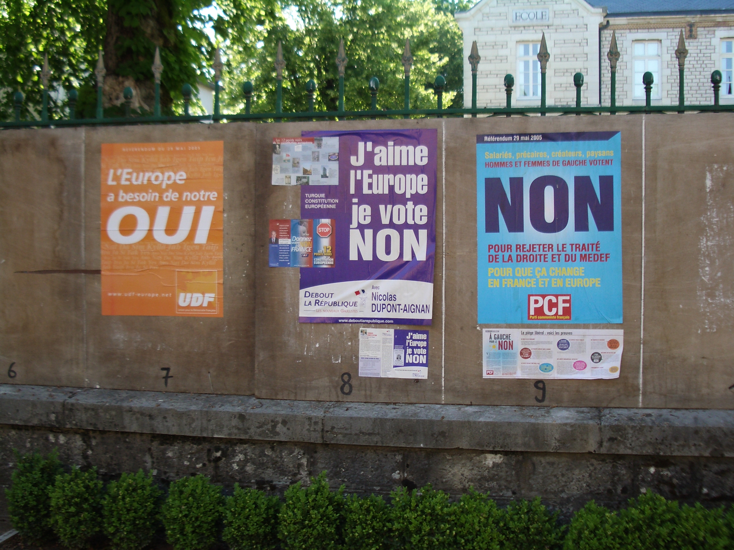 Posters for the French European referendum, 2005, Burgundy